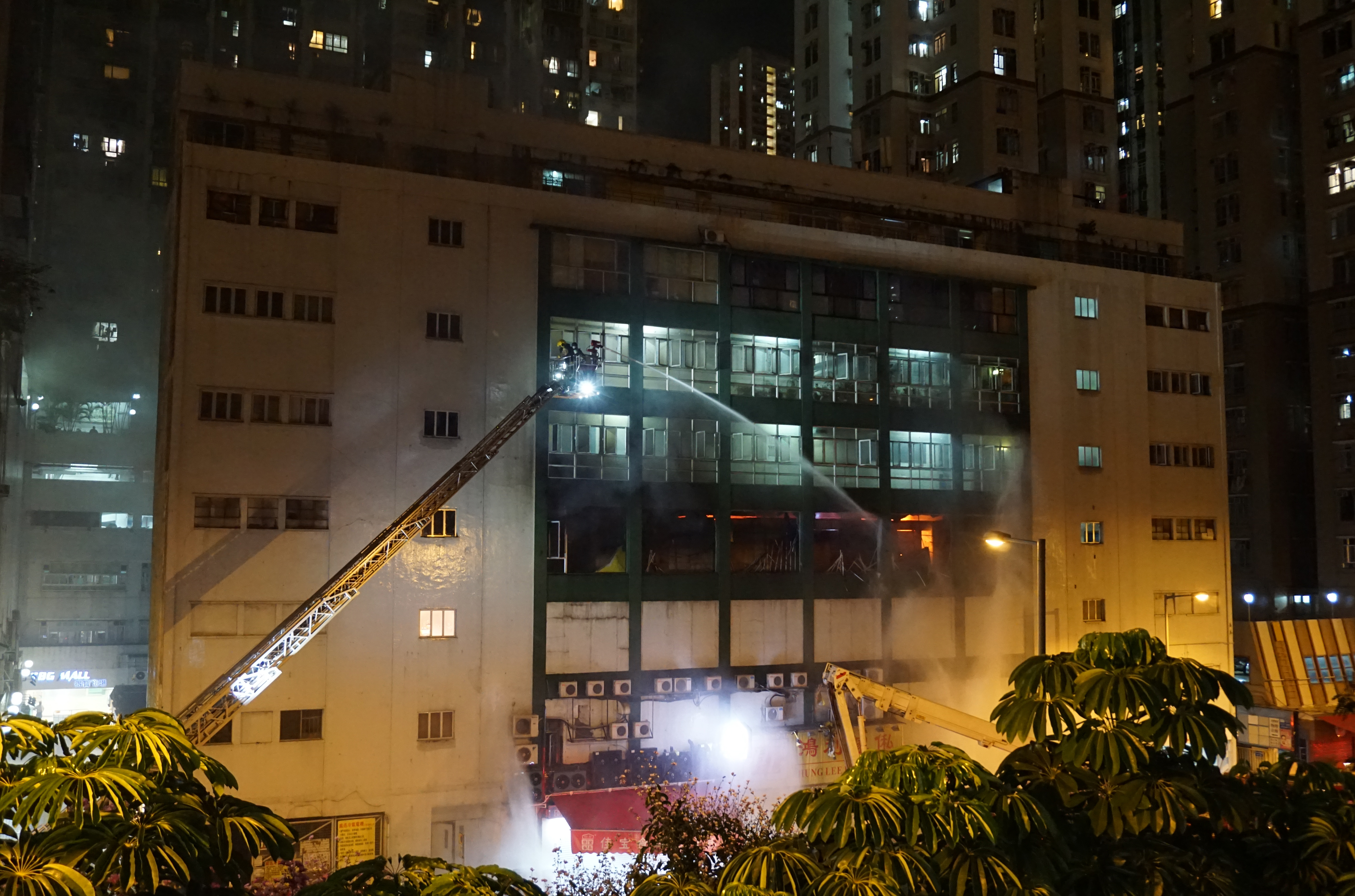 Amoycan Industrial Centre in Kowloon Bay, Hong Kong.